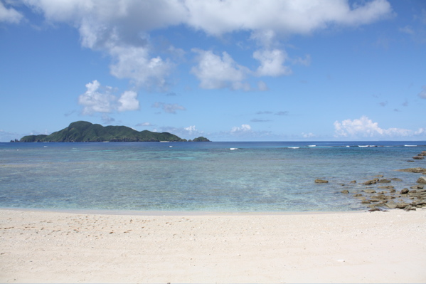 Beach view from Akajima island in the Kerama group of islands (Nr Okinawa, Japan)